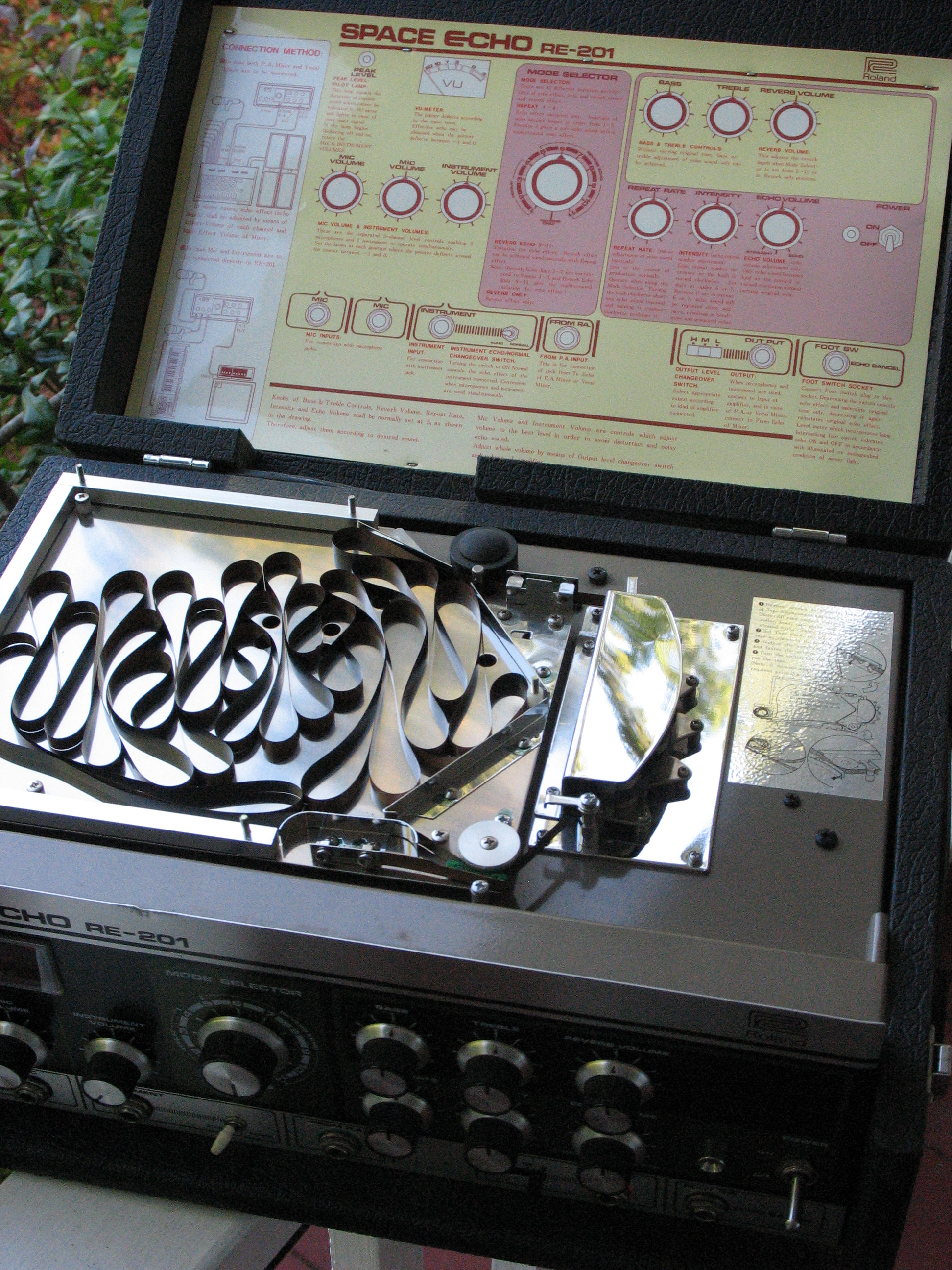 Photograph of the tape transport of a Roland RE-201 Space Echo